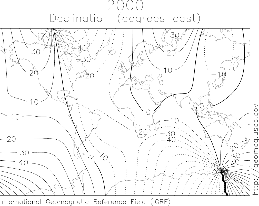 IGRF 2000 magnetic declination map.